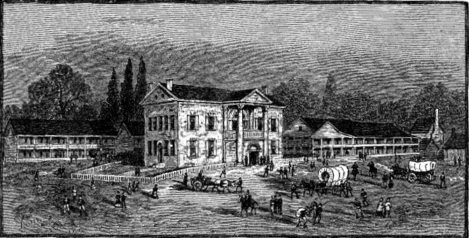 Dahlonega, Georgia, USA, 1879 Source Source: "Gold-Mining in Georgia." Harper's New Monthly Magazine 59, Issue 352 (September 1879) URL